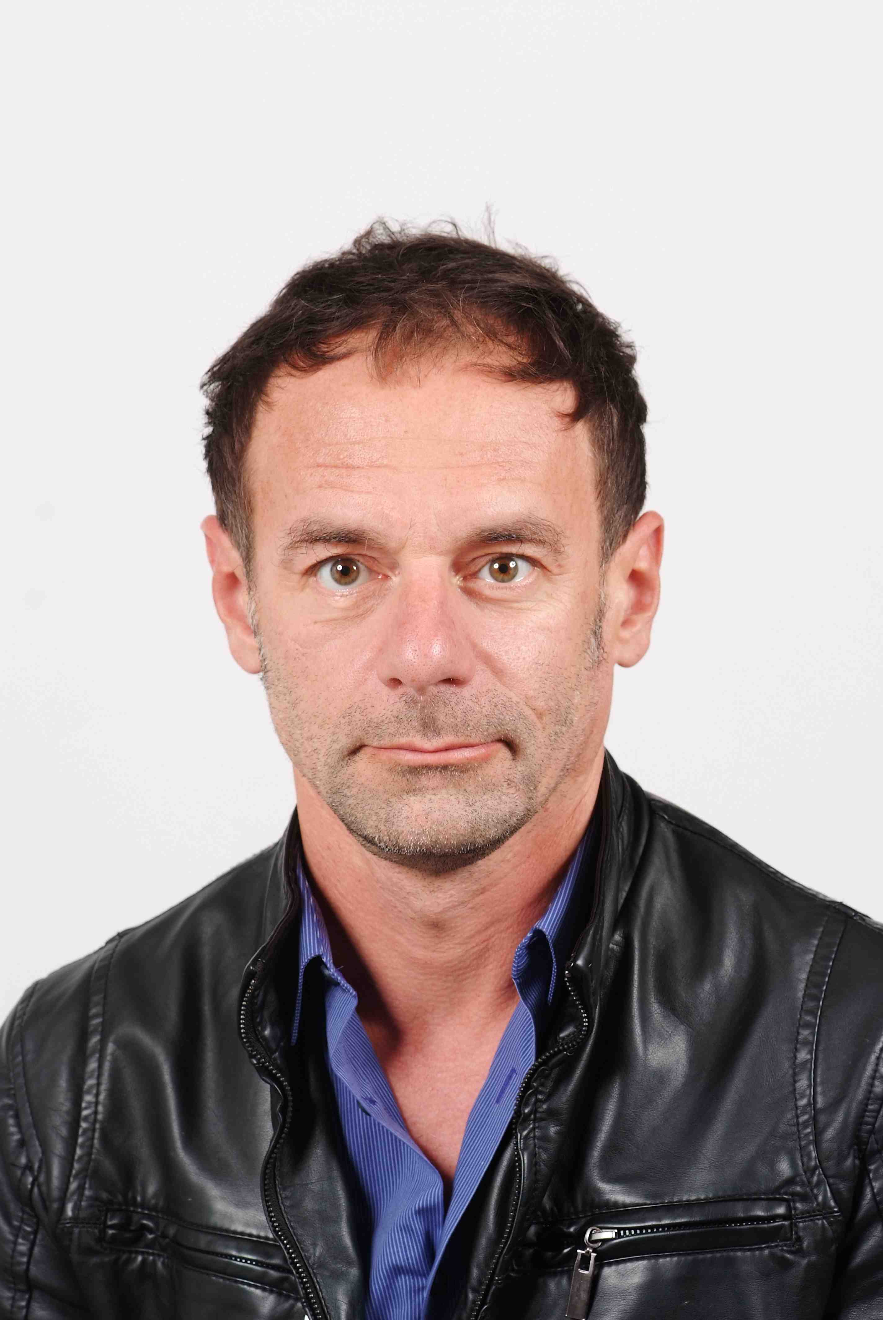 Daniele Trinchero at the time of the Comoros Islands Project presentation, November 10, 2012